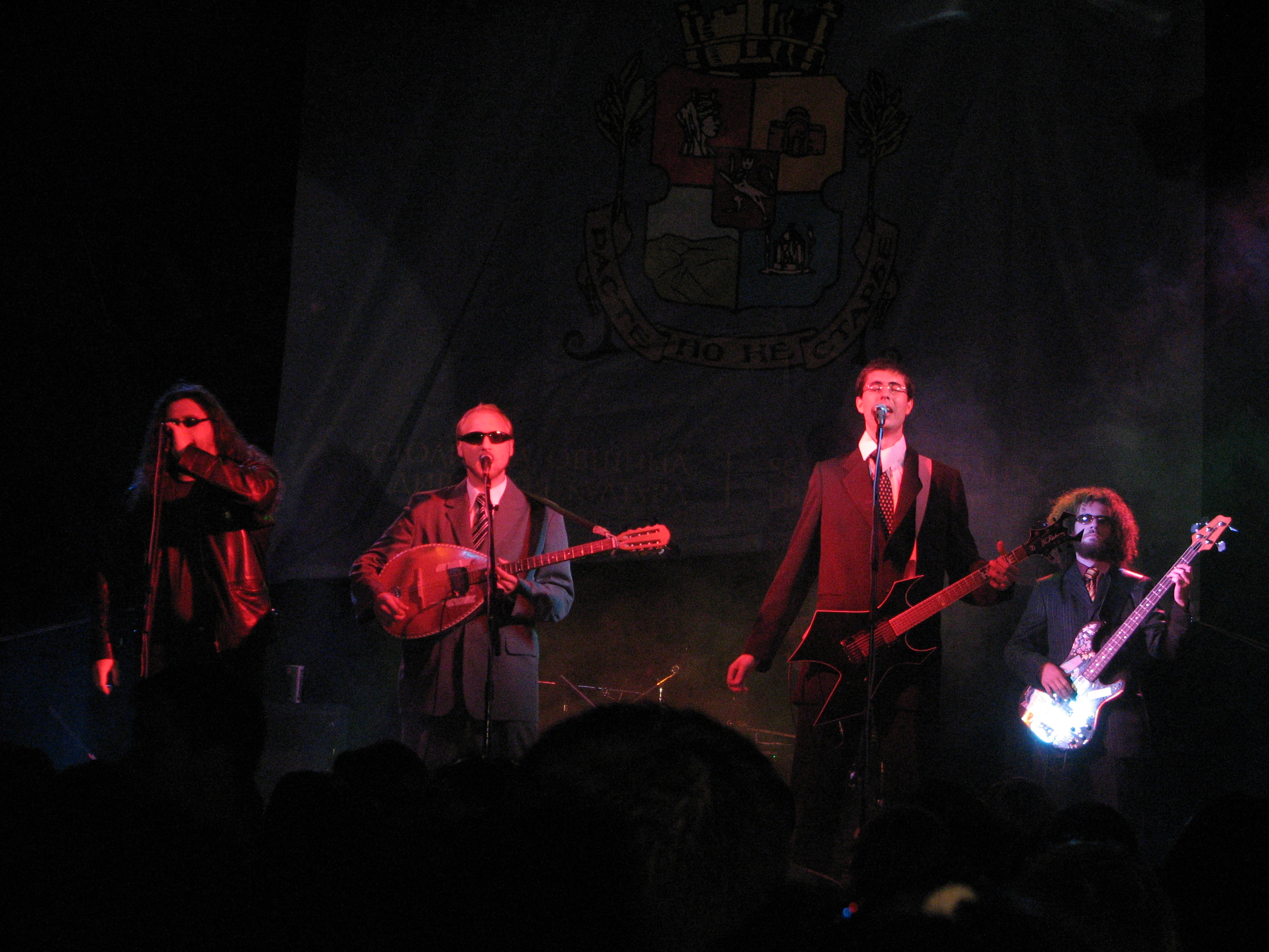 Spas Dimitrov, Valentin Monovski, Kiril Yanev, Vladimir Leviev in a Balkandji concert on the annual "Gradat i az" (Bulgarian: Градът и аз, meaning "The City and Me") festival in Sofia, Bulgaria.